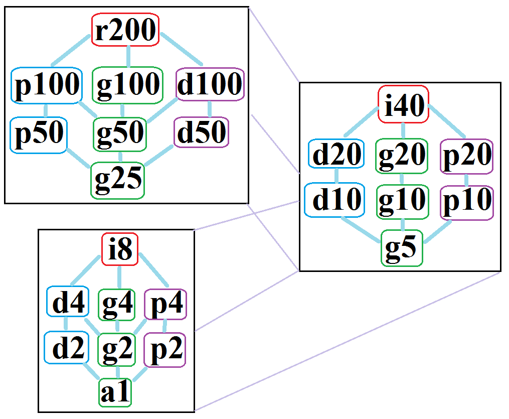 hectogon symmetries